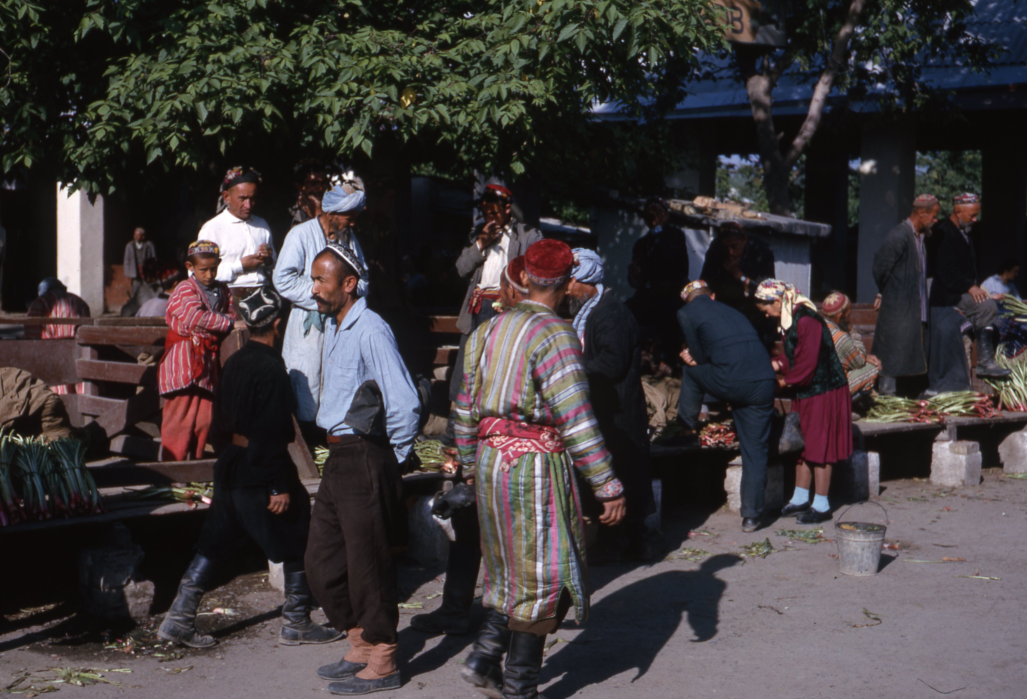 These photos were taken by Thomas T. Hammond during his trip to Central Asia in the Soviet Union. The photos are unlabeled, so the exact locations and people are unknown. This specific image features a market in Dushanbe.